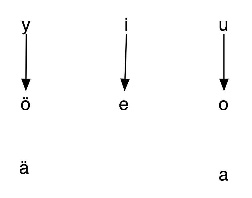 Drawing of Falling diphthongs.